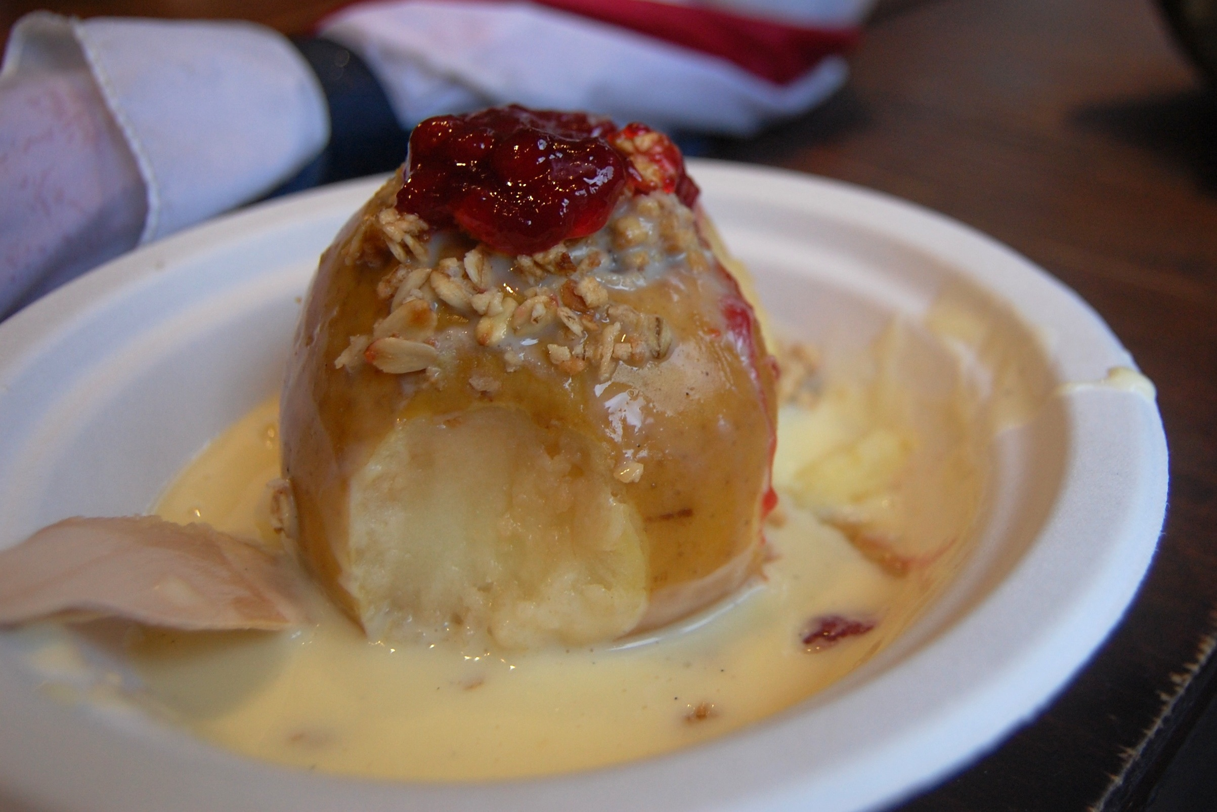 Someone already took a bite out of this baked apple!